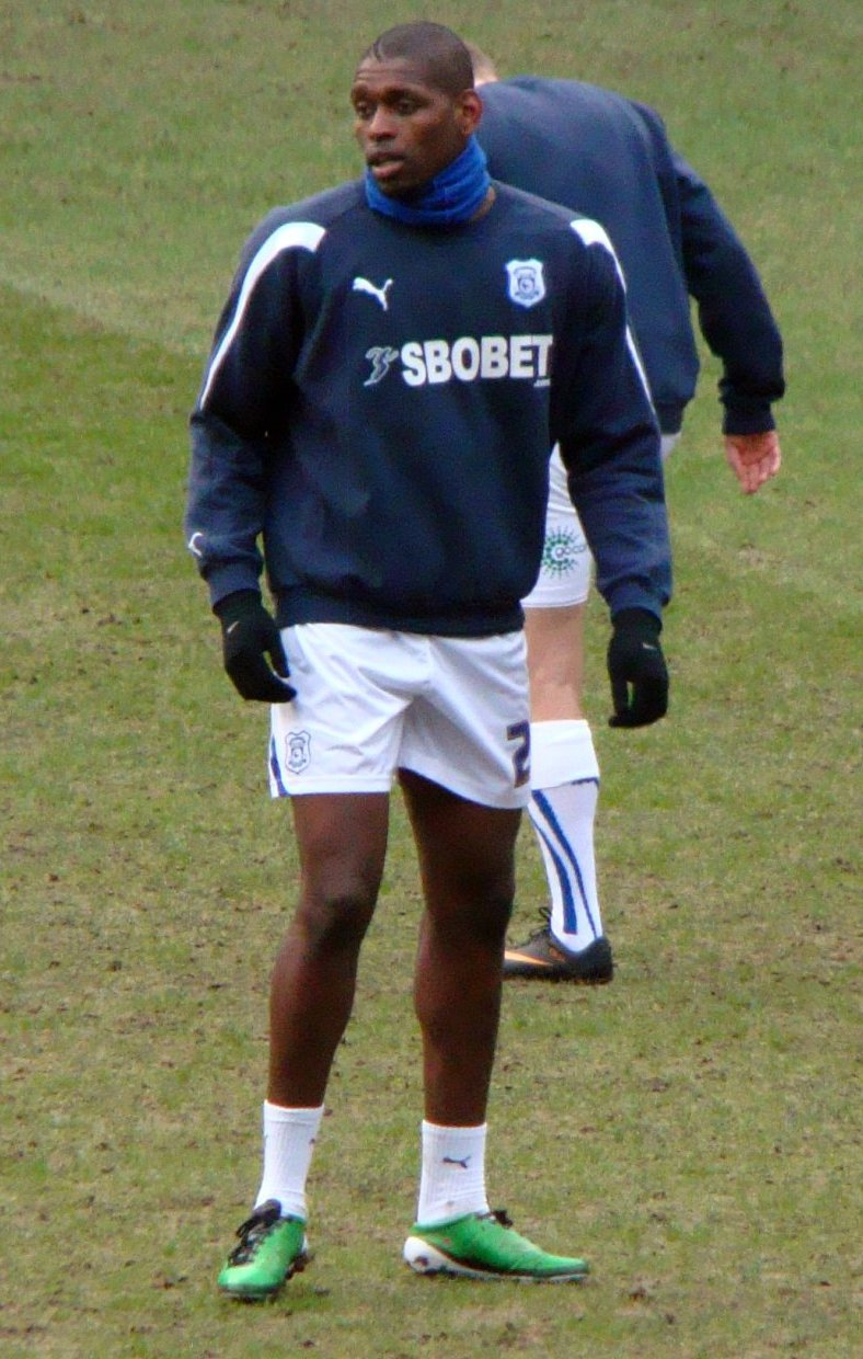 22/01/11 Cardiff V Watford, Championship, Cardiff City Stadium, Cardiff, Wales